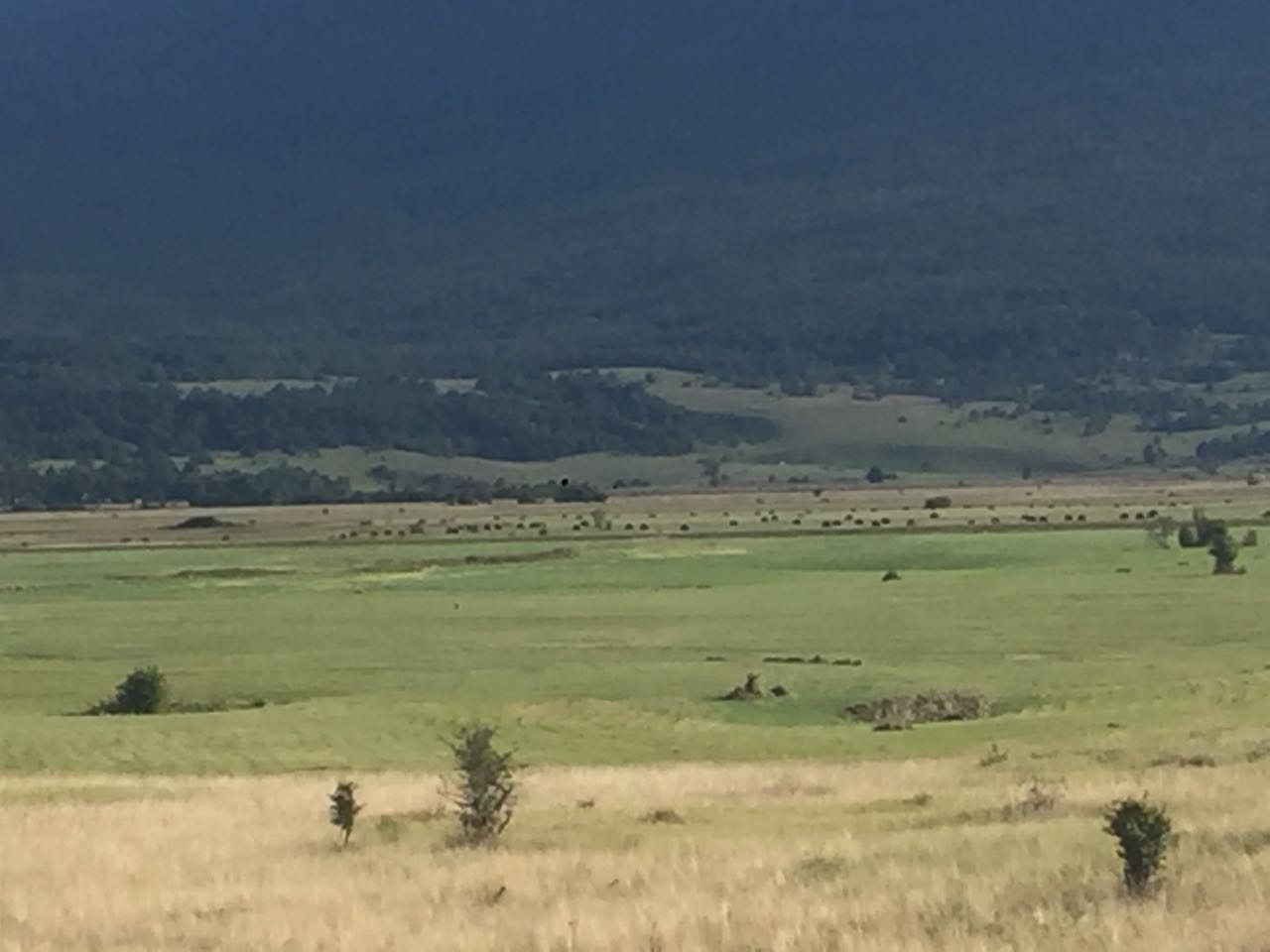 Field Medeno 1